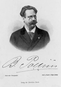 German opera manager Bernhard Pollini (1838—1897)